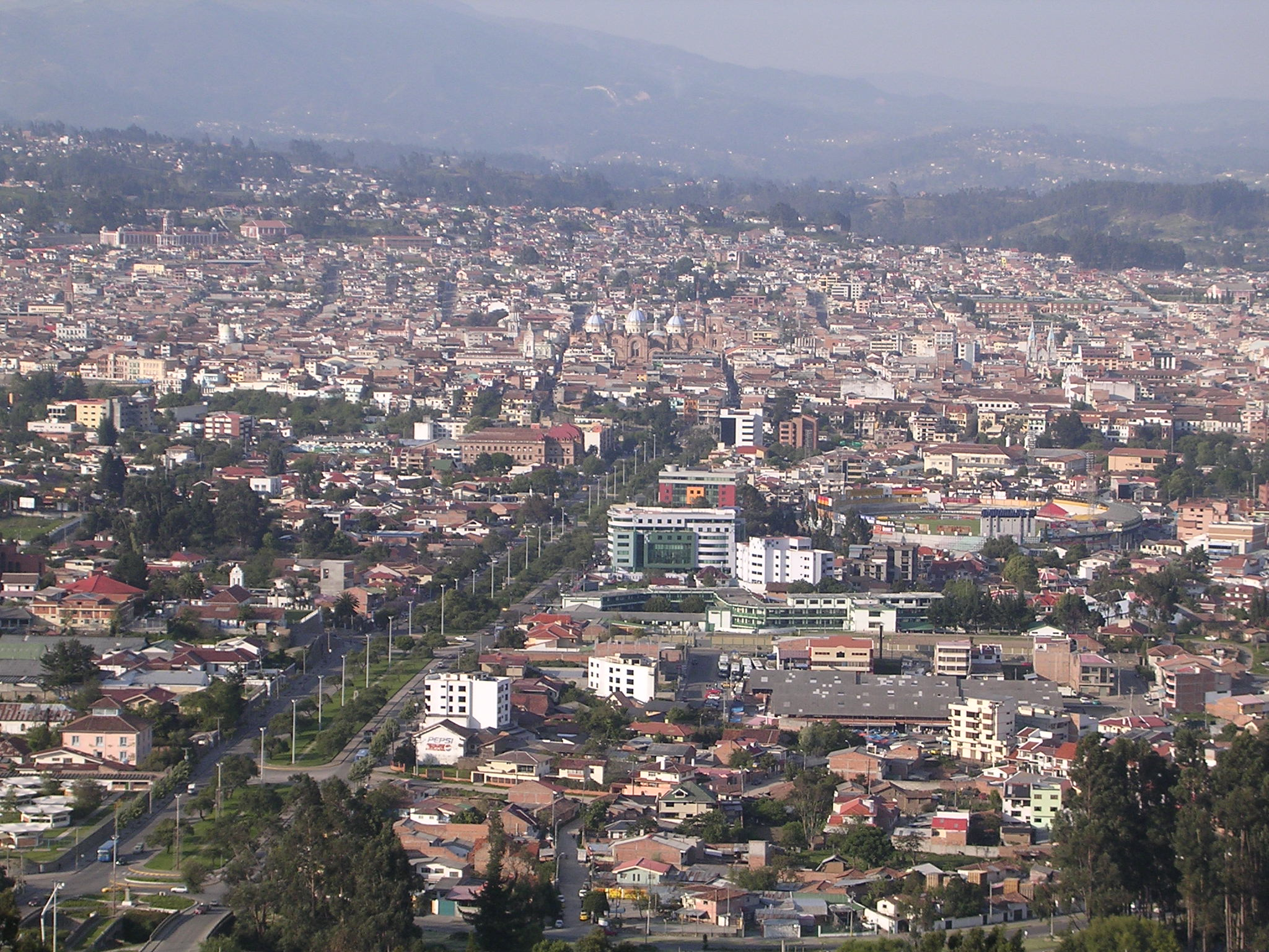 View of Cuenca (Ecuador) from the hill and village of Turi.